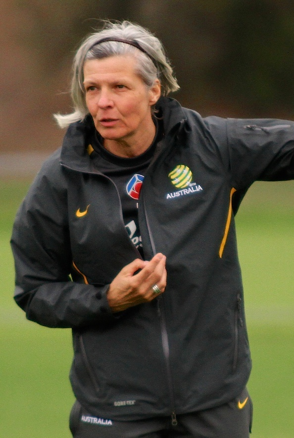 Coach of the Australian Women's National Team Hesterine de Reus coaching during a camp in March 2013